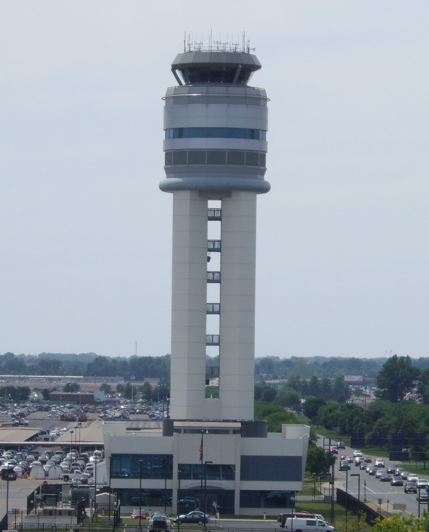 The control tower at Port Columbus International Airport.